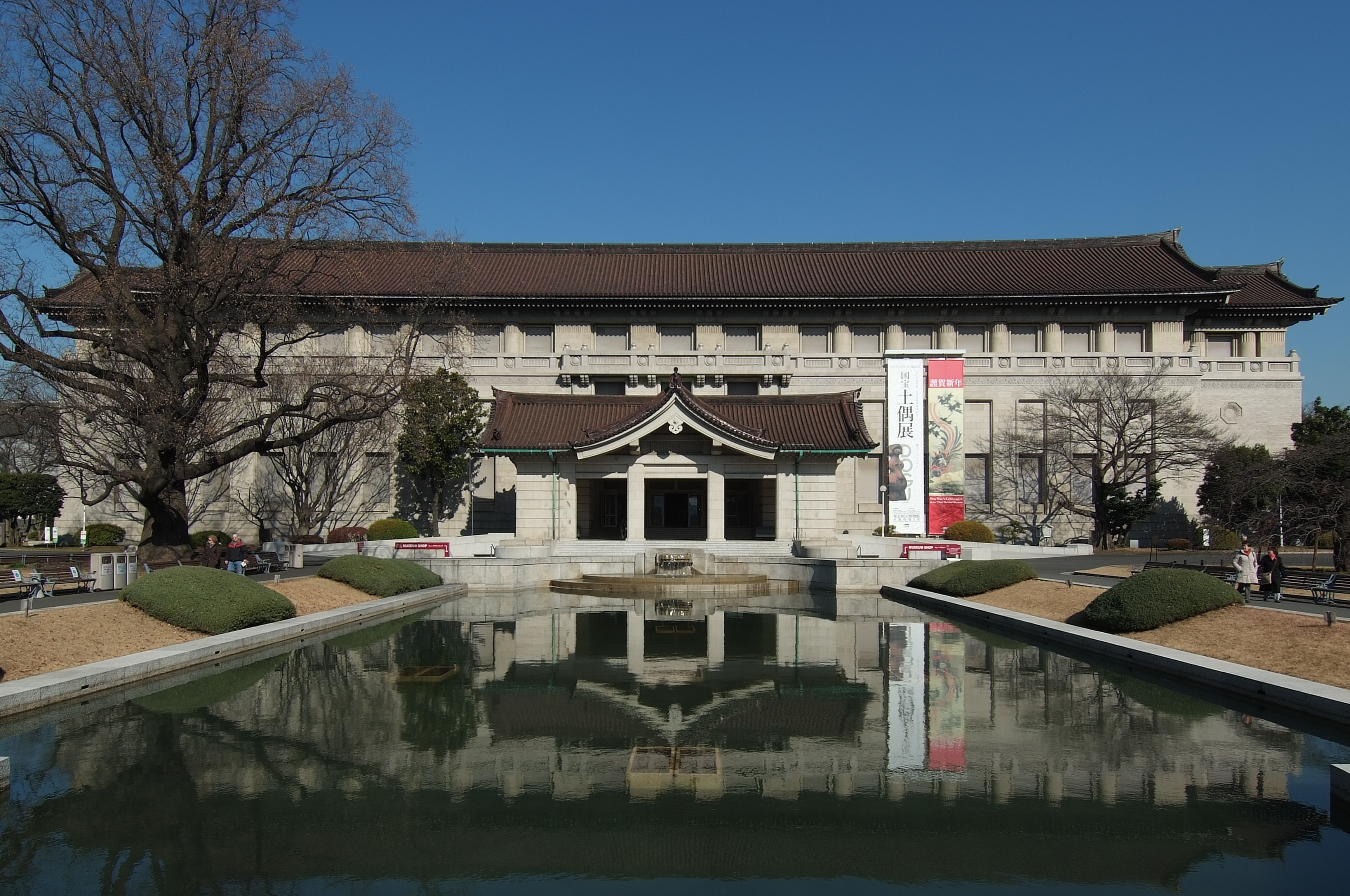 Honkan,Tokyo National Museum, at Taito-ku Tokyo Japan, designed by Jin Watanabe in 1937.